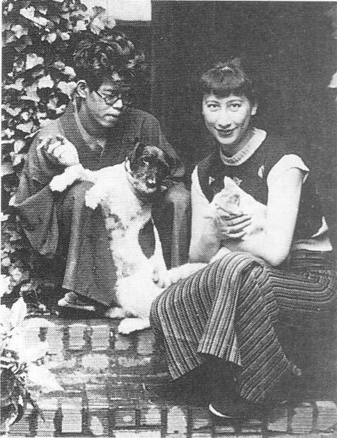 Yoshiko Sato (right. Japanese Mezzo-Soprano) and Sato Kei (left. Painter from Japan9